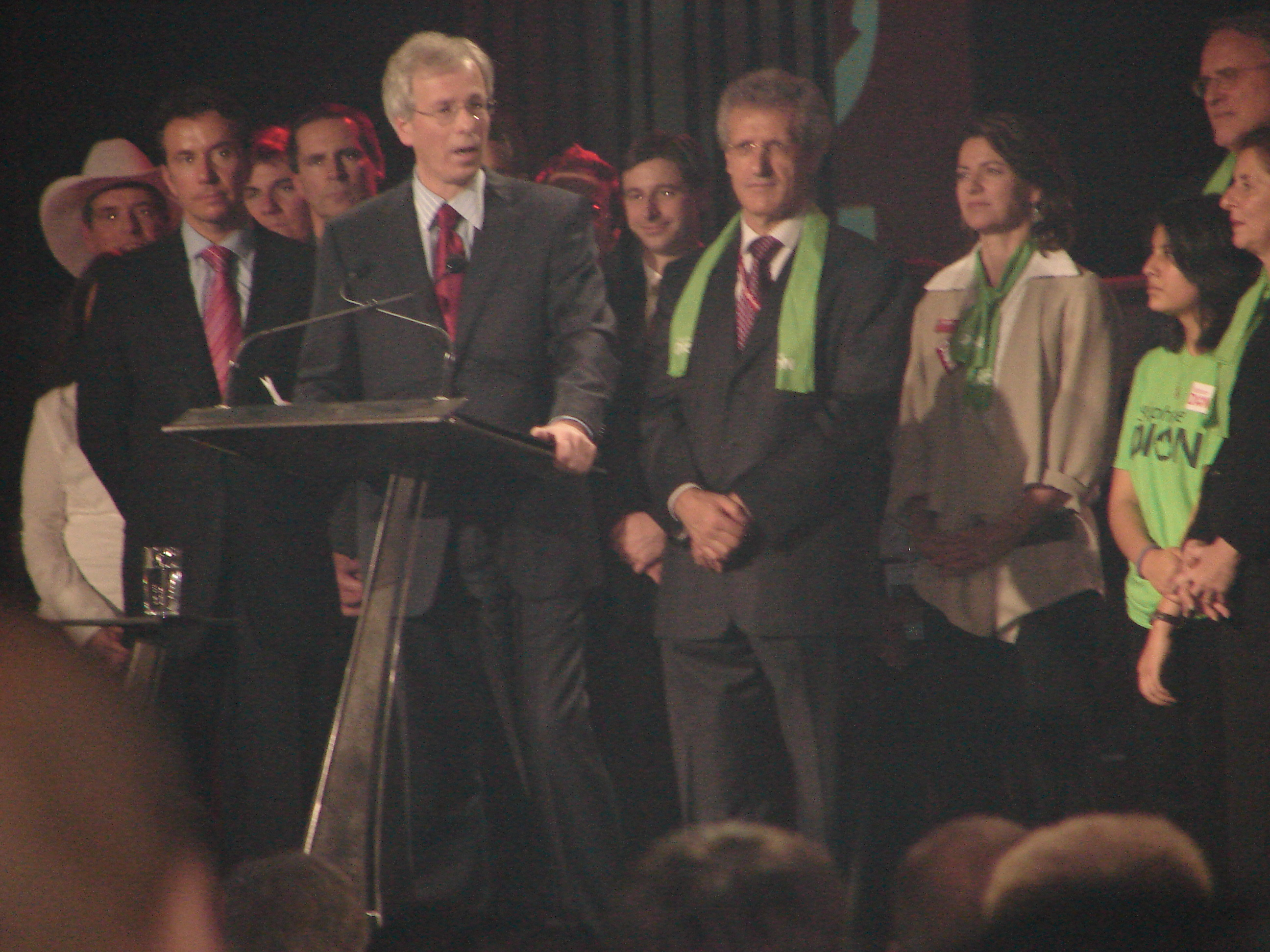 Stephane Dion making his maiden speech at the Liberal leadership convention, after winning the vote. Behind him is Scott Brison, Joe Volpe, Martha Hall Findlay, and Ken Dryden.